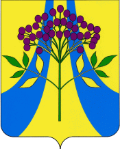 Coat of arms of Buzinovskaya, Výselki Raion, Krasnodar Krai, Russia.